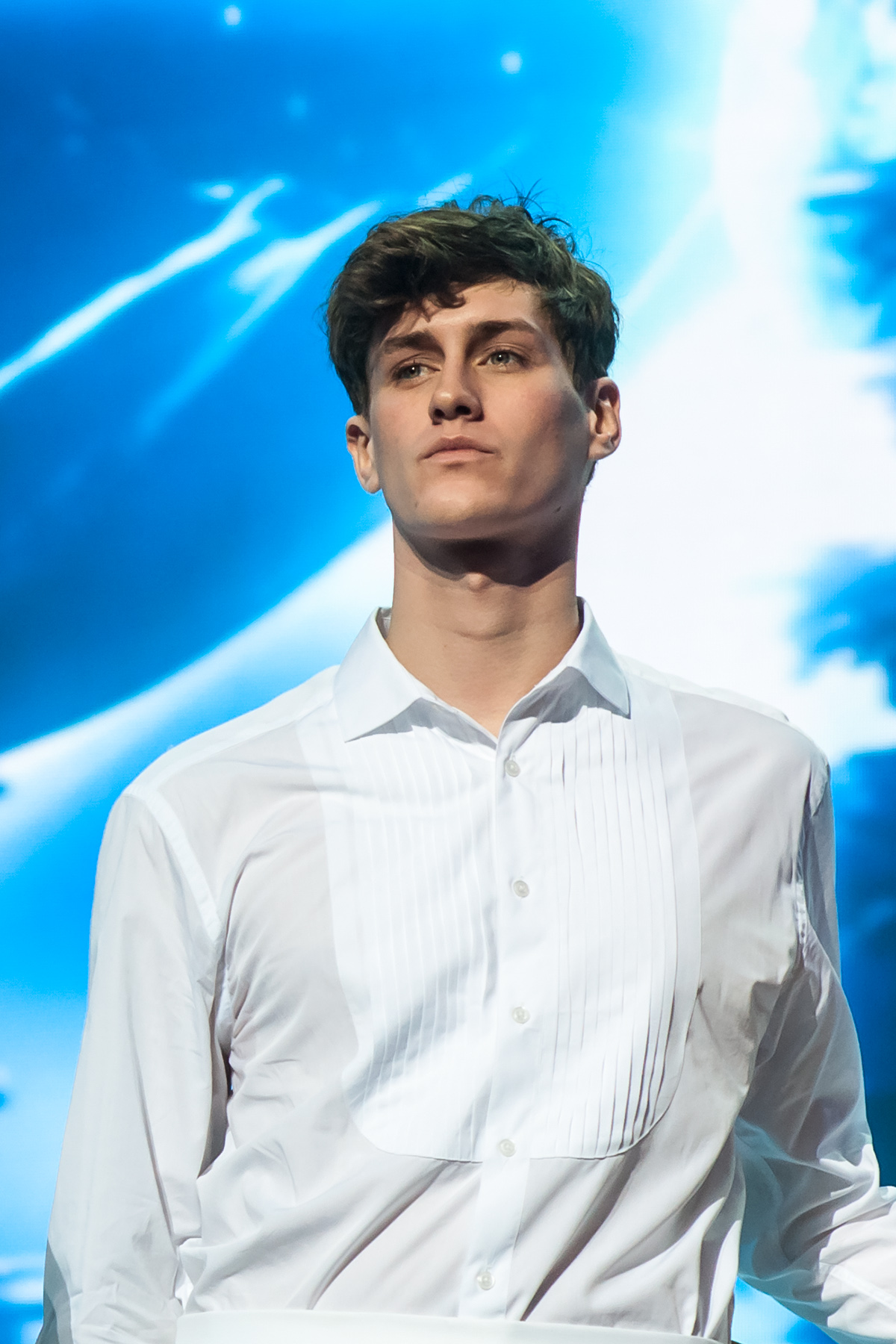 Jean-Baptiste Maunier at Les Enfoirés in Palais omnisports de Paris-Bercy, on 24th of January 2013.